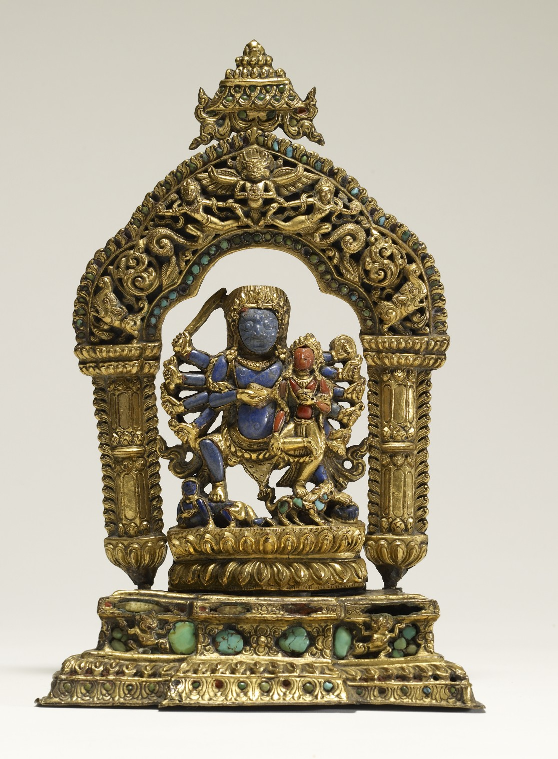 This blue god of ferocious form and ten arms is Bhairava, the angry manifestation of Shiva. In Nepal, he is popular with both Hindus and Buddhists and is also known as Mahakala. His posture is somewhere in between the militant "pratyalidha" posture of Bhairava and the bent-kneed posture of Mahakala. His stretched left leg is sufficiently bent to balance his spouse on the thigh, while the right presses down on his mount, who is the man ("nara"). Nine of his ten arms radiate symmetrically on either side, except one that holds the skull cup against his chest. The others hold various weapons and emblems. By contrast, his spouse only has two arms and sits in the graceful "lalitasana" posture, although not too comfortably. Her dangling left leg rests on her lion mount. The right hand displays the gesture of charity and the left holds a skull cup.